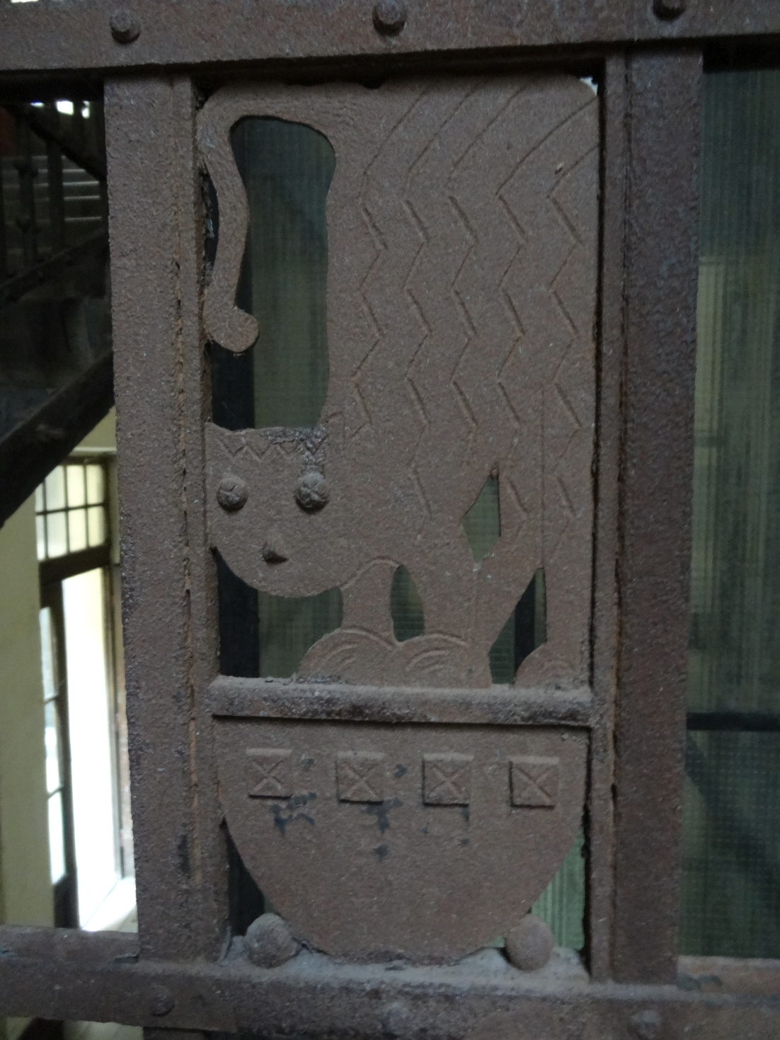 37 Népszínház Street – forged iron cat banister ornament in 2017